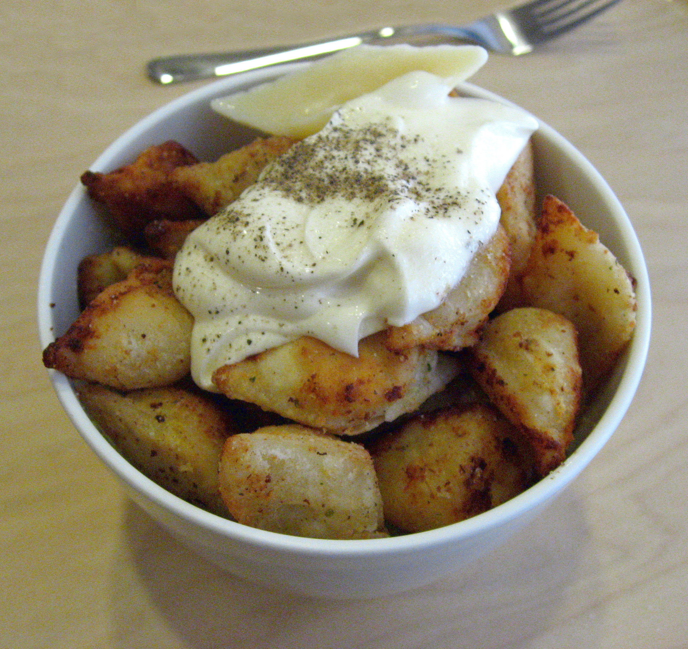 Pelmeni